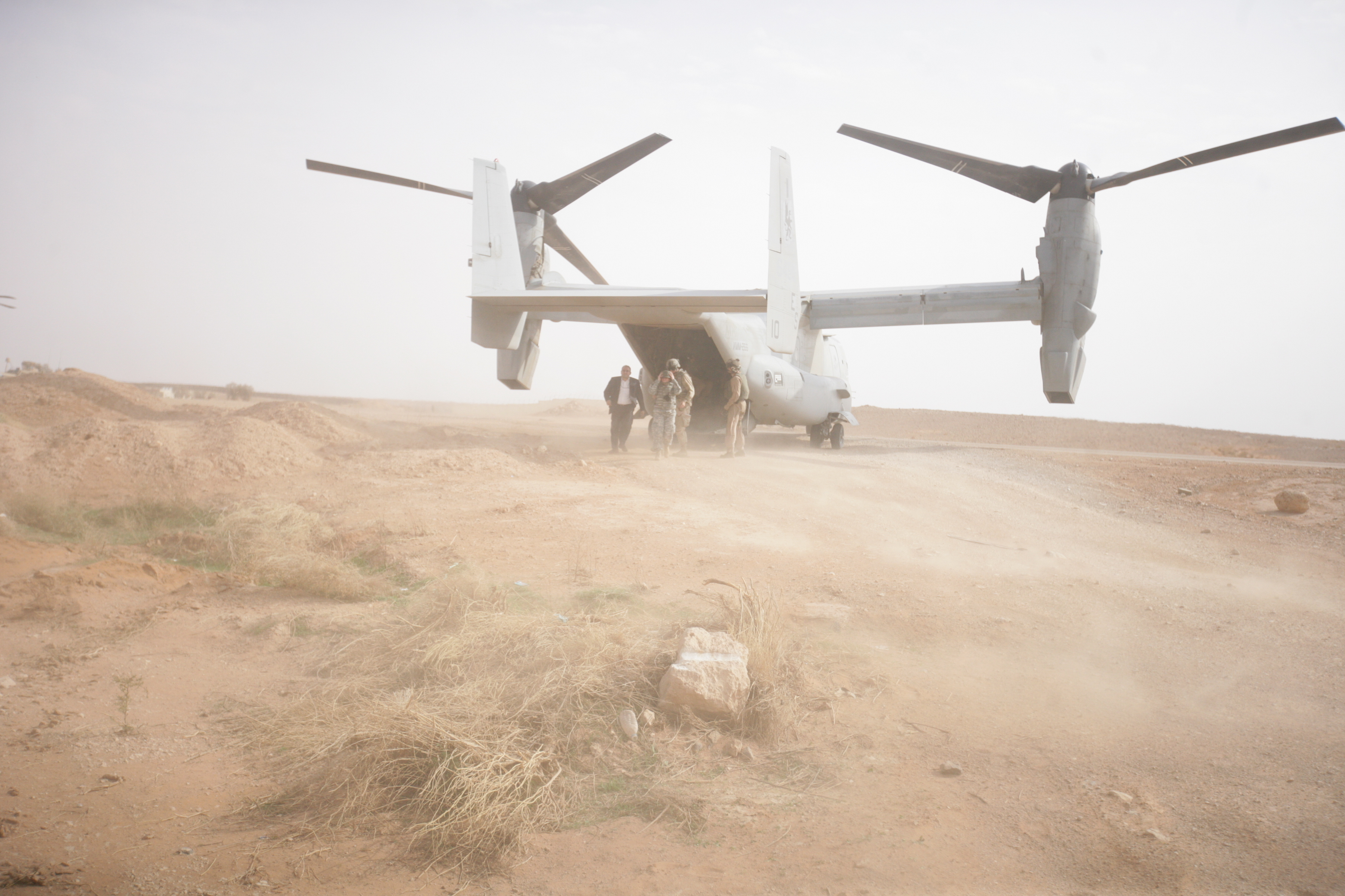 Deputy Prime Minister Rafe Eissawi, walks to shake hands with U.S. Marine Maj. Gen. John F. Kelly, Commanding General, I Marine Expeditionary Force, after flying in on an MV-22 Osprey for a meeting in Ar'Ar, Iraq, Nov. 19, 2008. This meeting is to advise and assist Iraqi border police during the Hajj, which is the journey to Mecca (that will include entering this area) - one of the 5 Pillars of Islam, to be completed once in a lifetime.